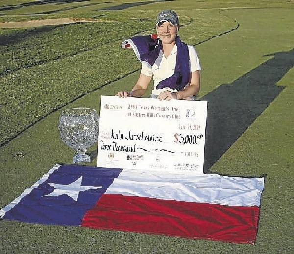 Katy Jarochowicz at the Texas Open